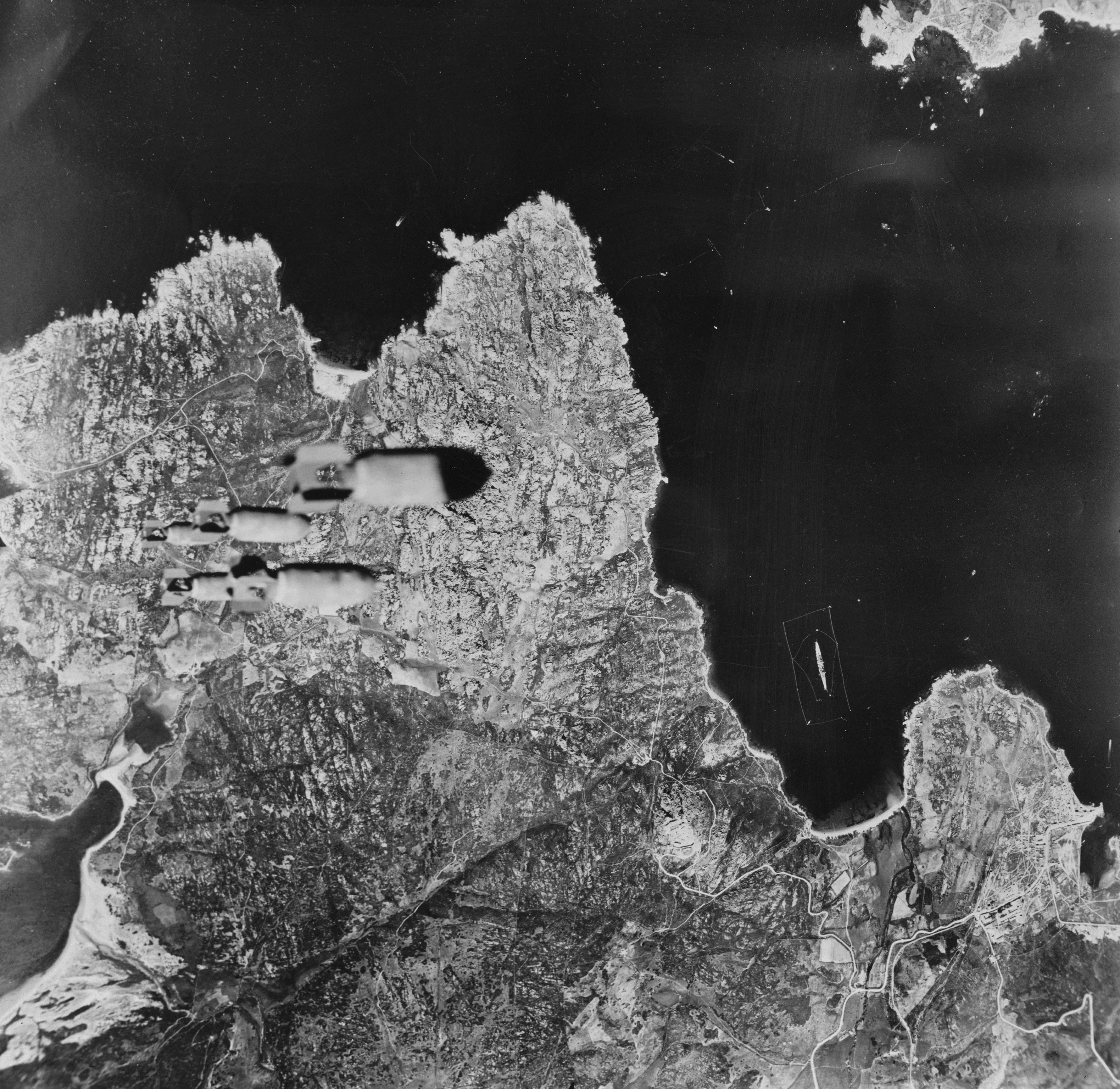 Aerial photo of a U.S. Army Air Forces attack on a Japanese cruiser at Kiska Harbor, Kiska island, Alaska (USA), circa 1943. The cruiser is protected by torpedo nets.Original caption: "A train of bombs drops from United States Army Air forces plane on territory in the Aleutians held by the Japanese. Our fighting forces harass the enemy at this important outpost daily."